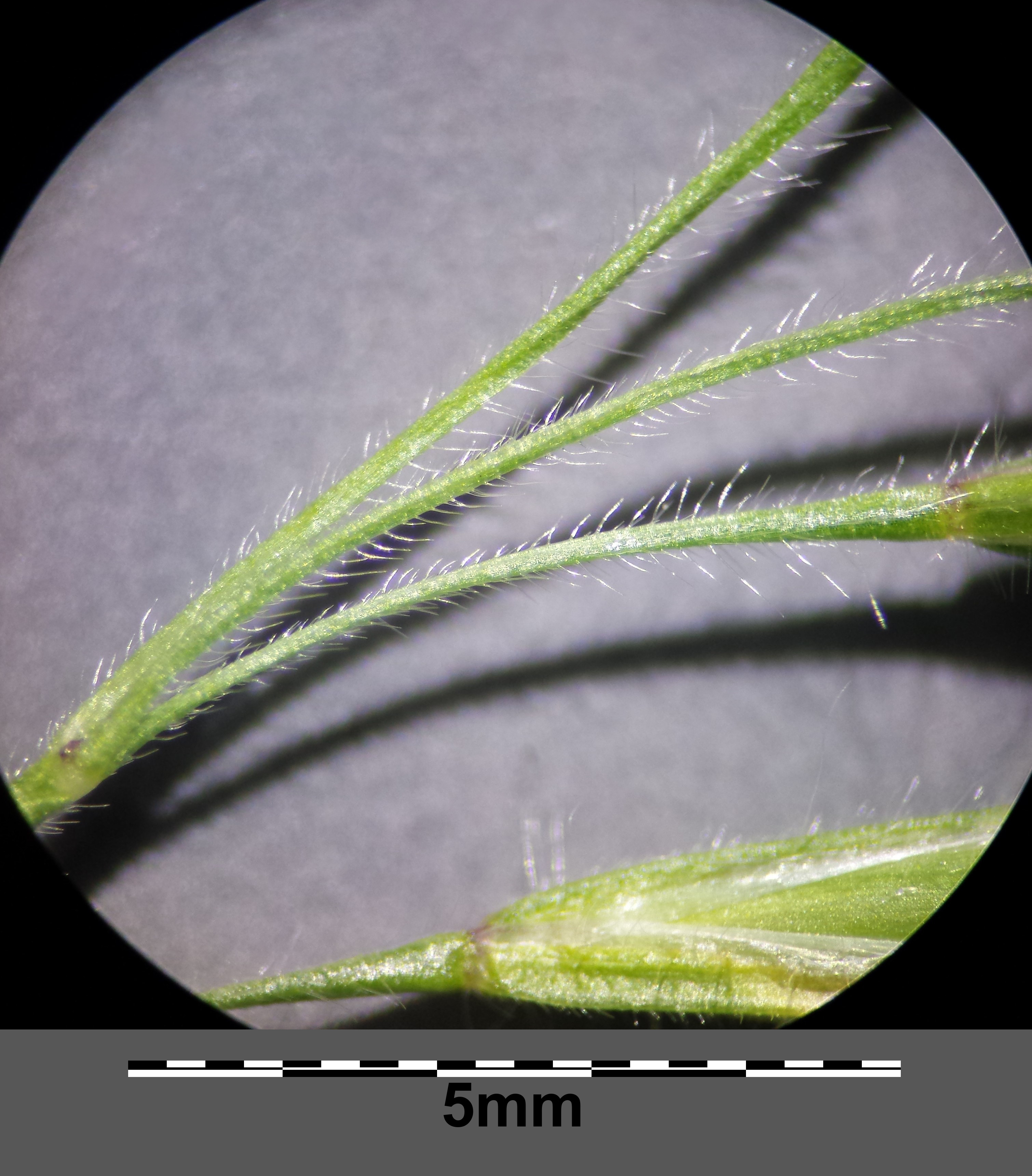 Panicle (detail) Taxonym: Bromus tectorum ss Fischer et al. EfÖLS 2008 ISBN 978-3-85474-187-9 Location: Jedlersdorf rail station, Vienna-Floridsdorf - ca. 160 m a.s.l. Habitat: ruderal area